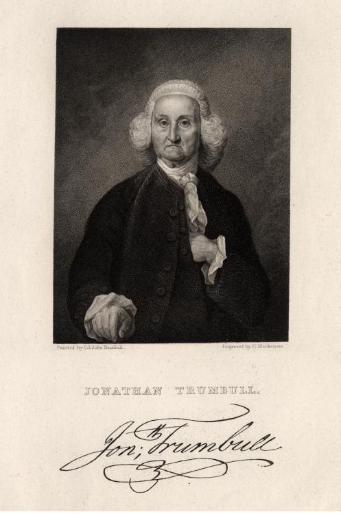 Jonathan Trumbull, engraving 1855 by E. Mackenzie, after a painting by Col. John Trumbull. Engraving prepared for "History of Connecticut: From the First Settlement of the Colony to the Adoption of the Present Constitution," by G. H. Hollister.